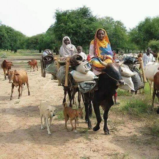 صورة للرحل او ما يسمي البقارة يستخدمون الحيوانات كوسيله مةاصلات This is an image with the theme "Africa on the Move or Transport" from: Sudan